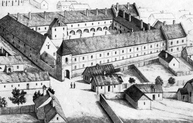 The Reformed College of Debrecen